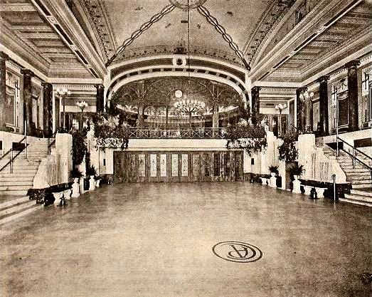 Lobby of the Strand Theatre in Brooklyn, New York, designed by Thomas Lamb. Its colorful style was reported as based upon the Pompeian period. On page 4210 of the May 15, 1920 Motion Picture News.